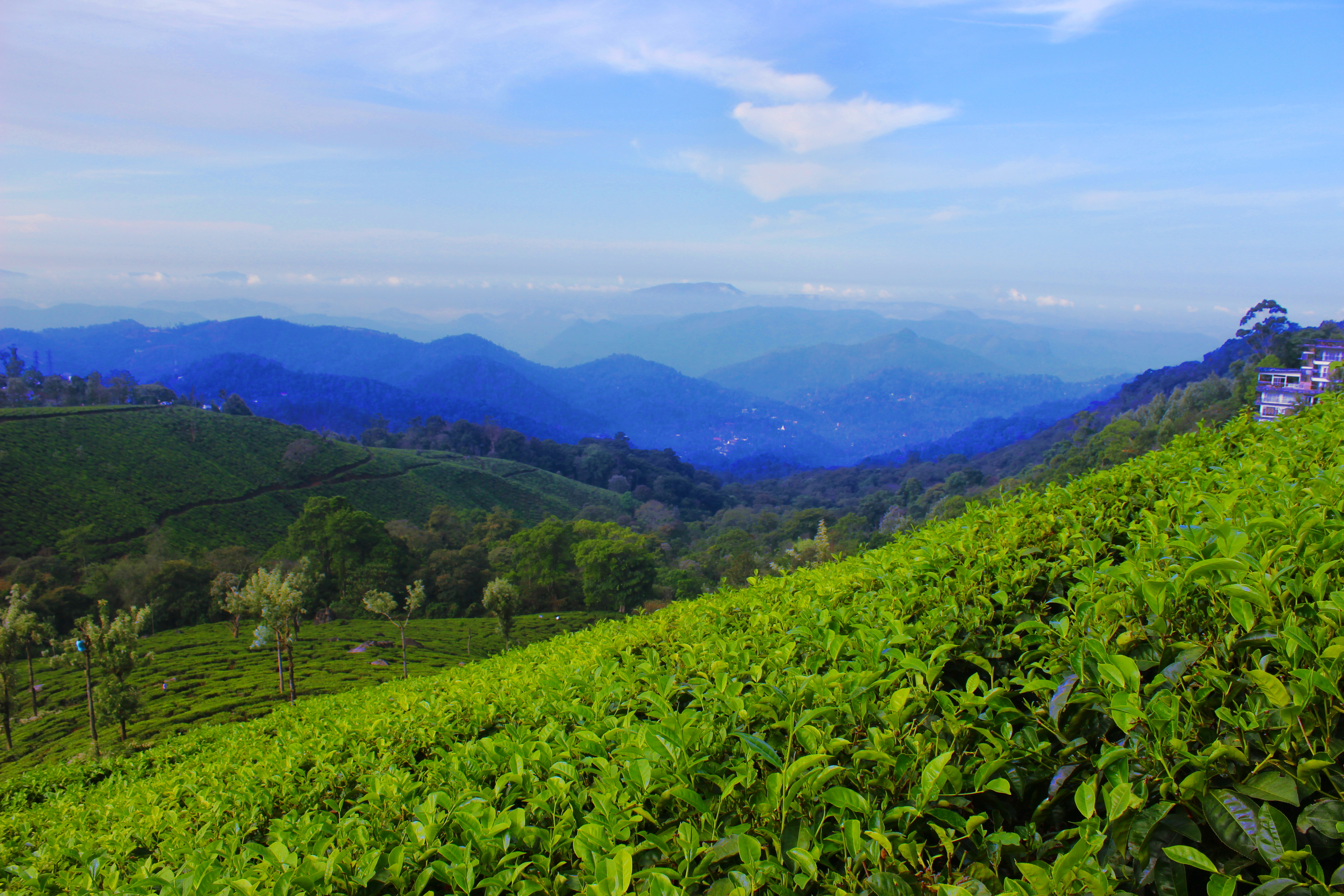 The beautiful tea garden and blue hills at Munnar, Kerala